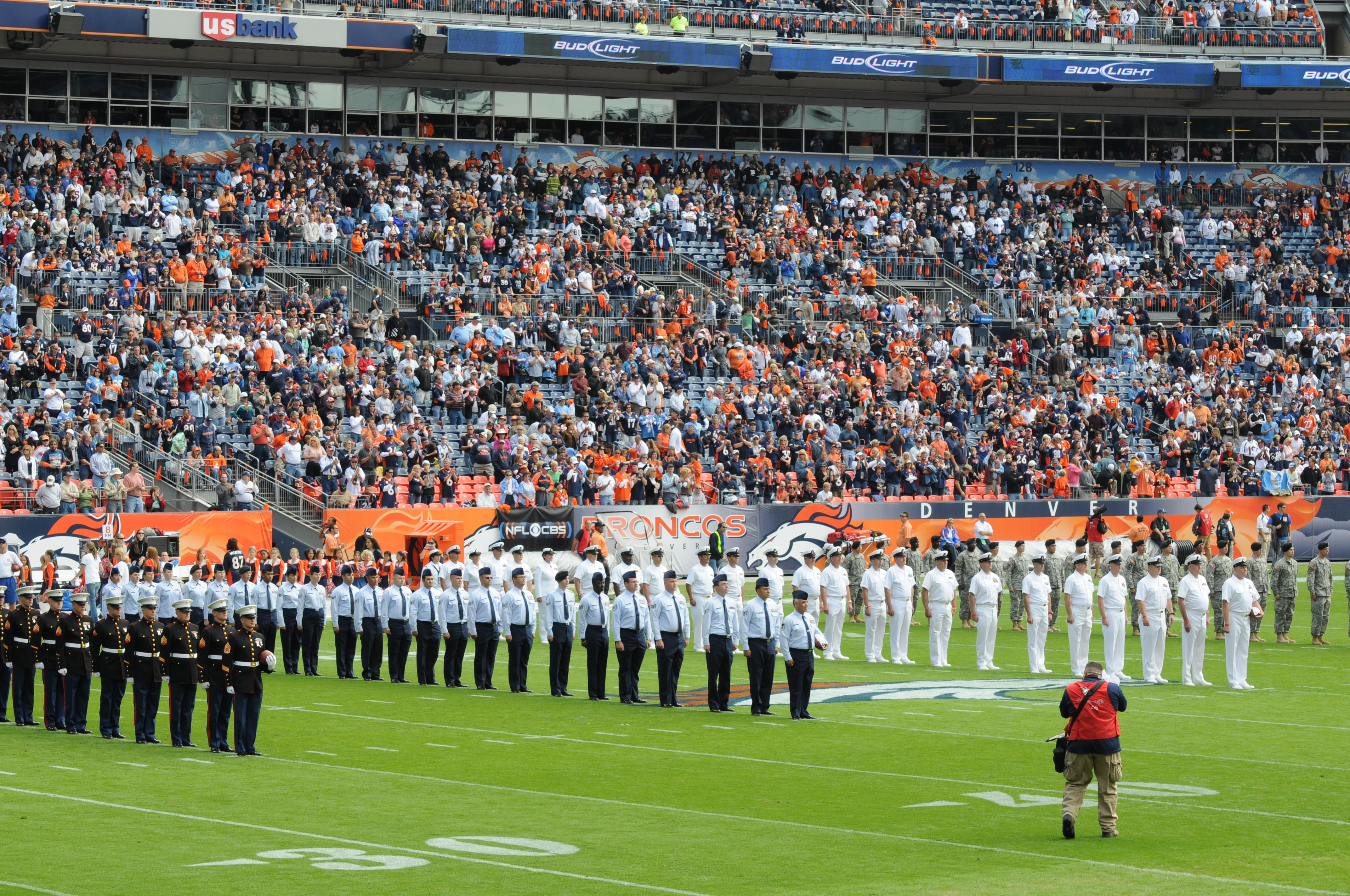 own work, gfdl